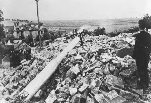 Lidice, Czechoslovakia, 1942 after Nazi atrocities